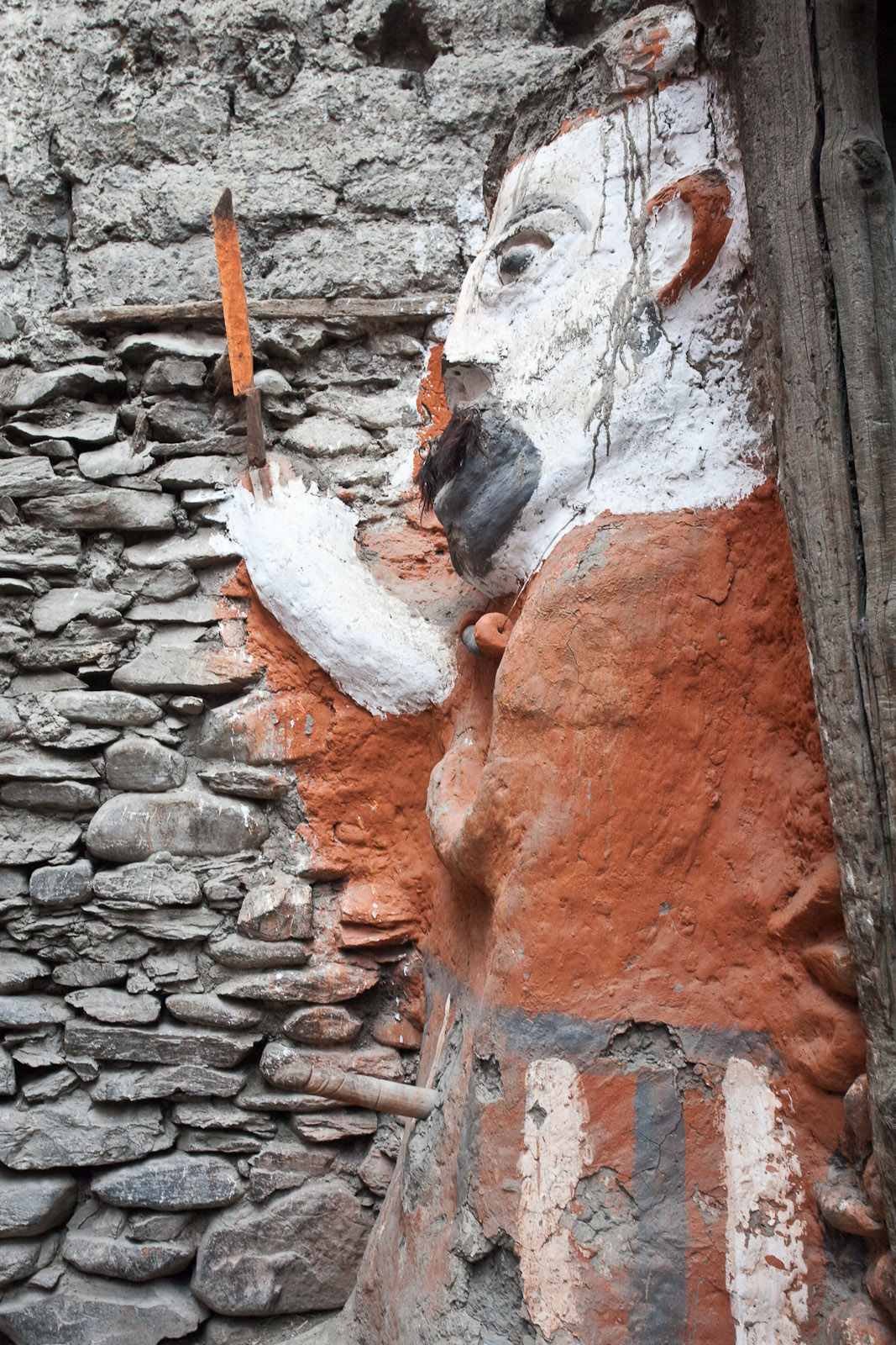 A kheni (ghost eater) in Kagbeni - note what he's wielding.